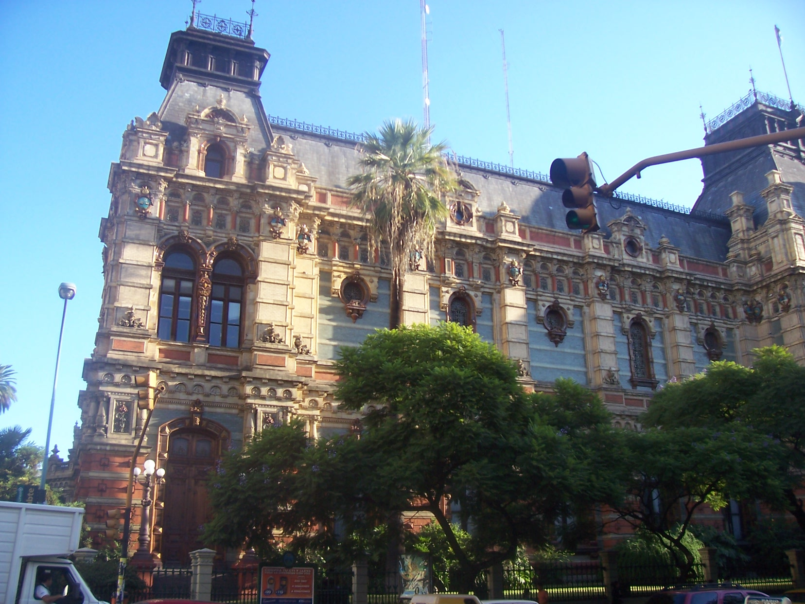 Palacio de las Aguas (Water Palace). The current building belongs to Aguas Argentinas (former Obras Sanitarias de la Nación), in the Córdoba avenue, between Ayacucho and Riobamba, in the Balvanera district of Buenos Aires, Argentina.